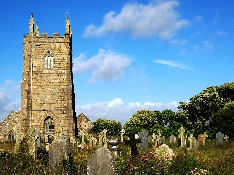 Lelant - Cornwall - UK